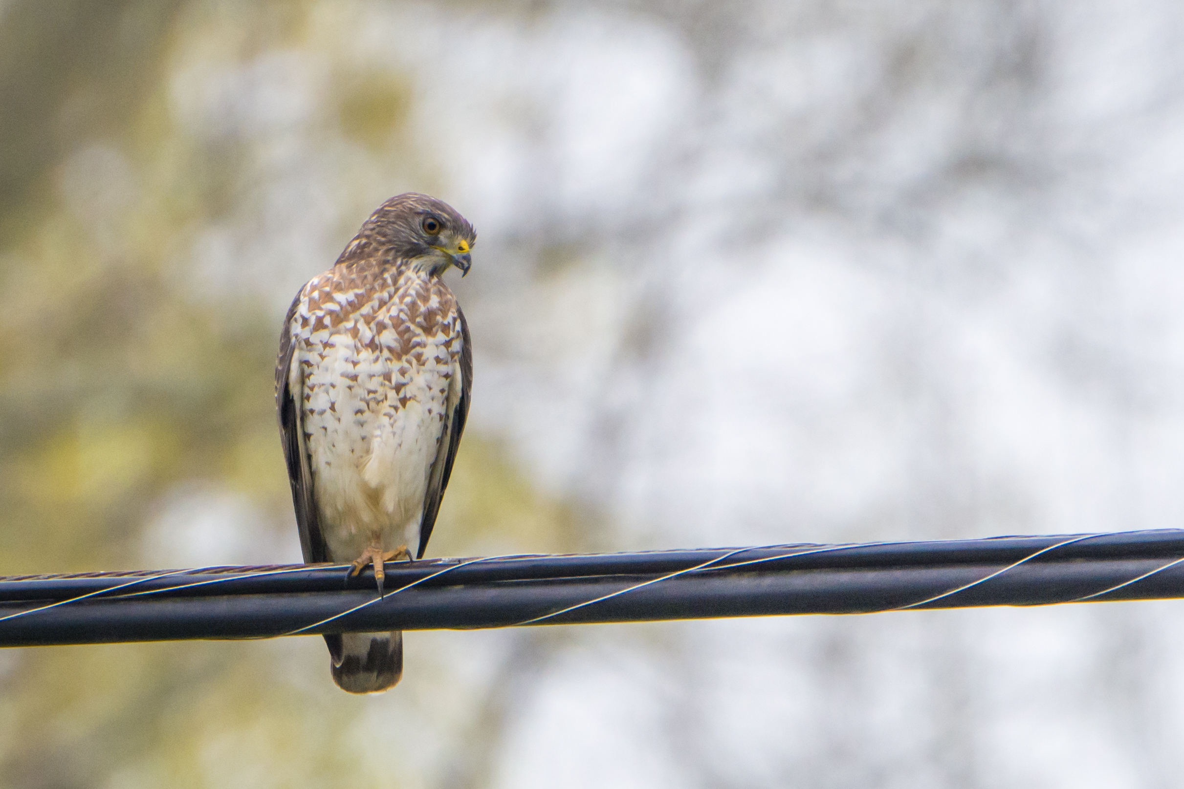 Bonham Road, Oxford, Ohio